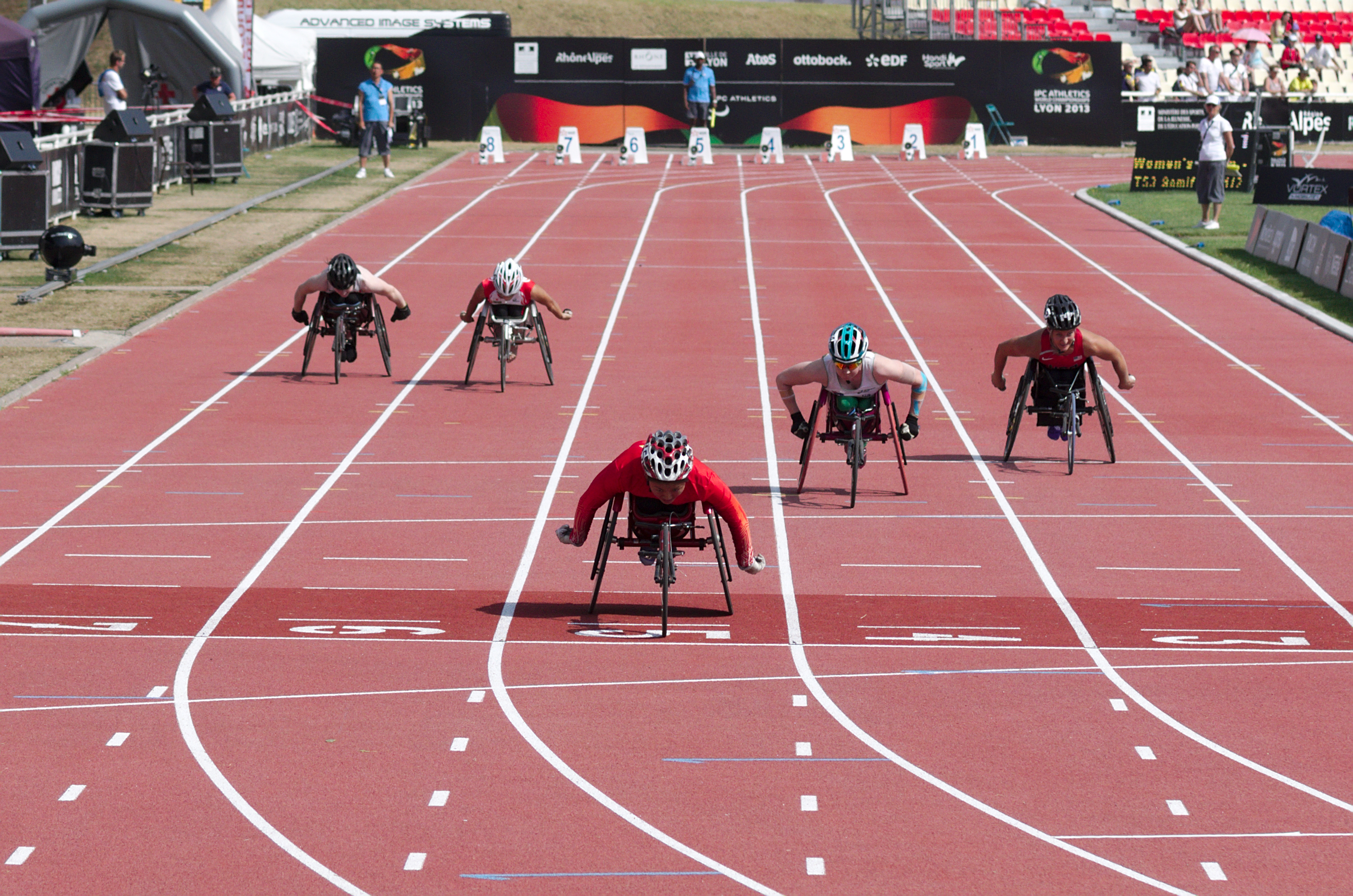 Arrival of the Women's 400M - T53 first semifinal